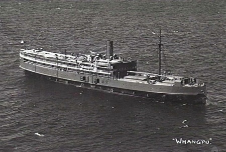 Former China Navigation Company steamship Whang Pu after escaping from the Fall of Singapore in 1942. In 1943 she was commissioned into the Royal Australian Navy.